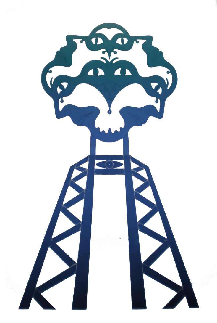 Artwork by Vello Vinn (2009)